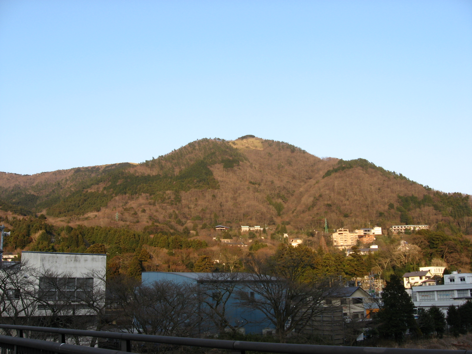 Mount Myojo (Myojogatake) as seen from the east.